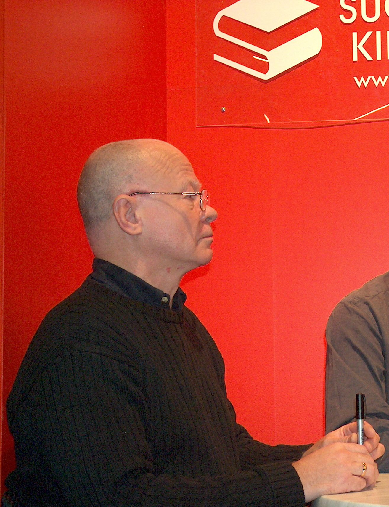 Priit Pärn, Estonian artist, at the Helsinki Book Fair in 2004